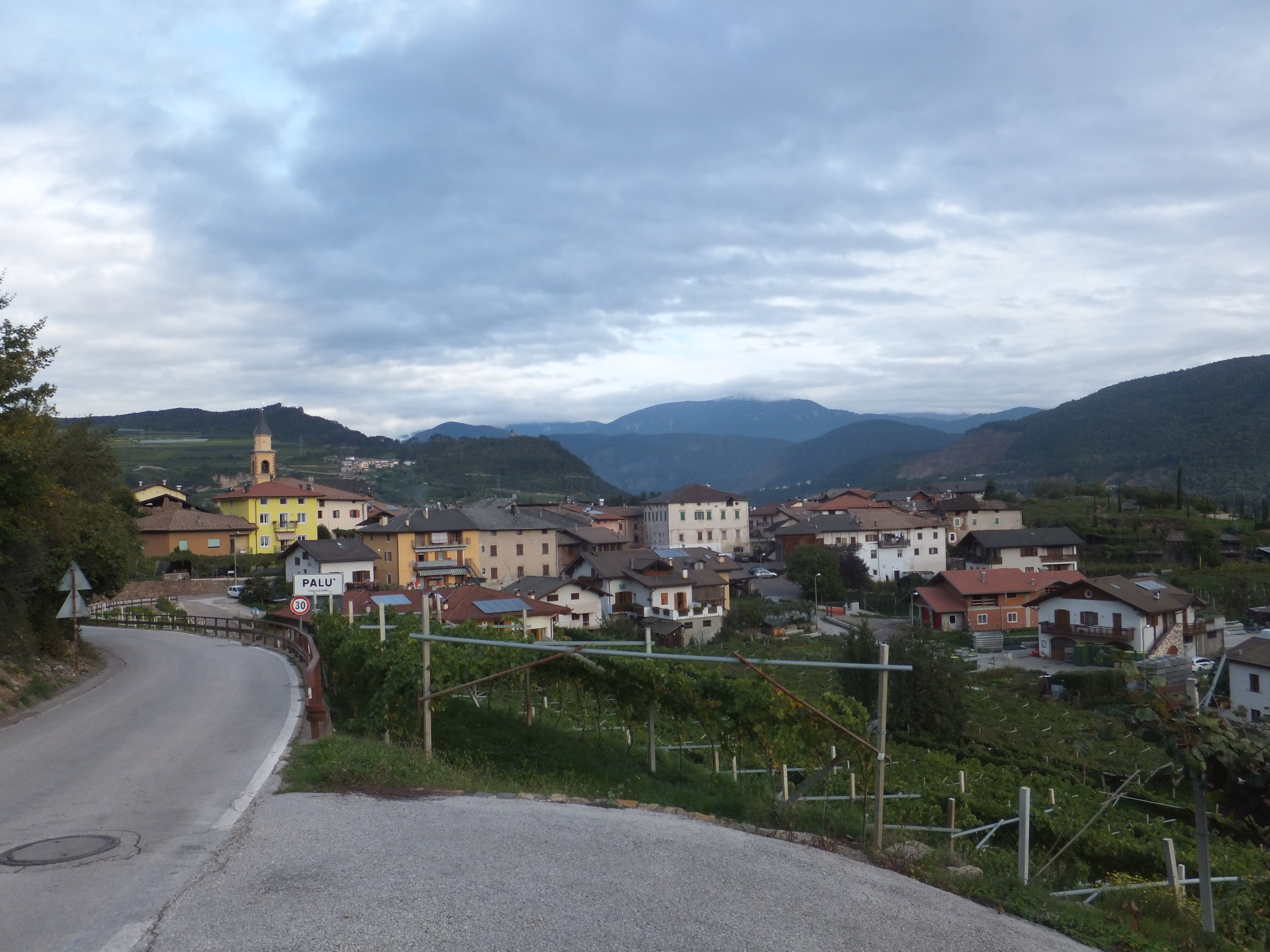 Palù di Giovo (Giovo, Trentino, Italy) - View